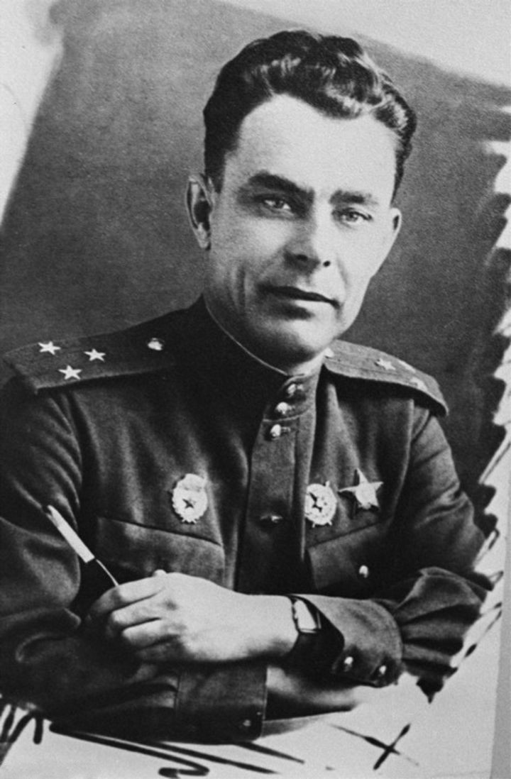 Colonel Leonid Brezhnev, head of the Political Department of the 18th Army.